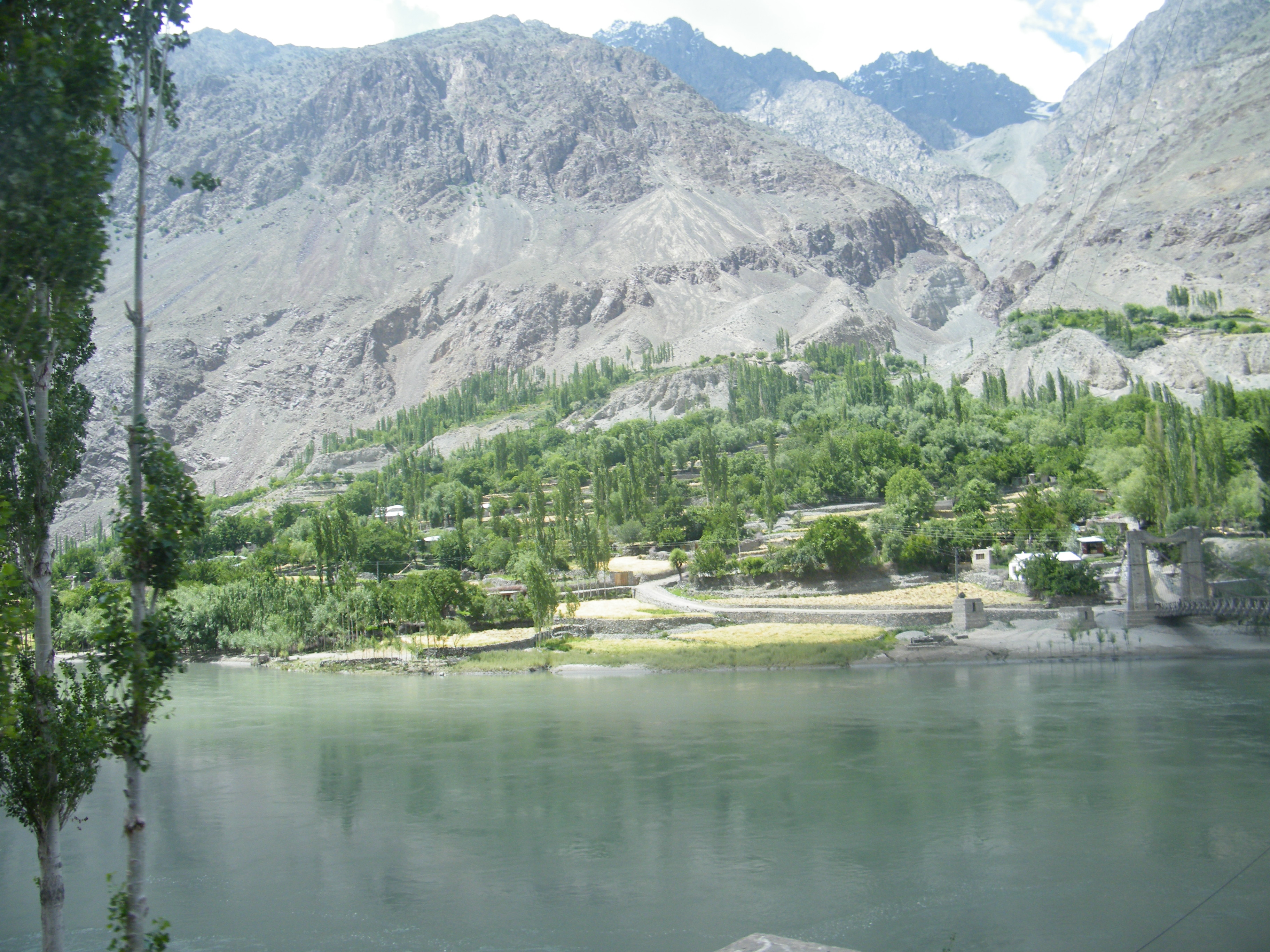 Khalti Lake in the Ghizer District, Gilgit.